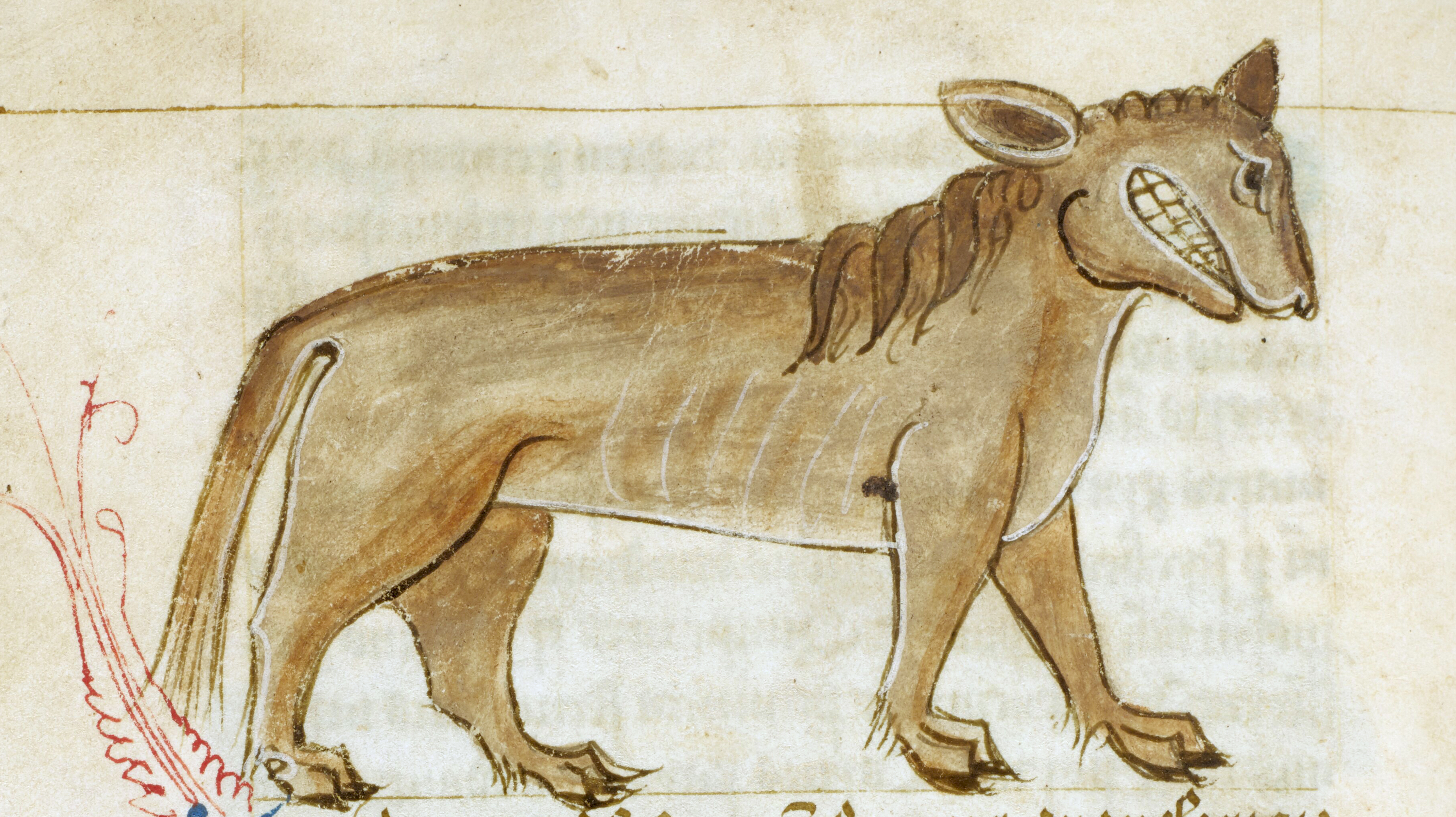 The legendary crocotta, as portrayed in the Bestiary of Anne Walshe